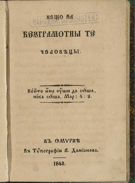 A capture of the title page of the book from the Bulgarian renaissance author Botio Petkov